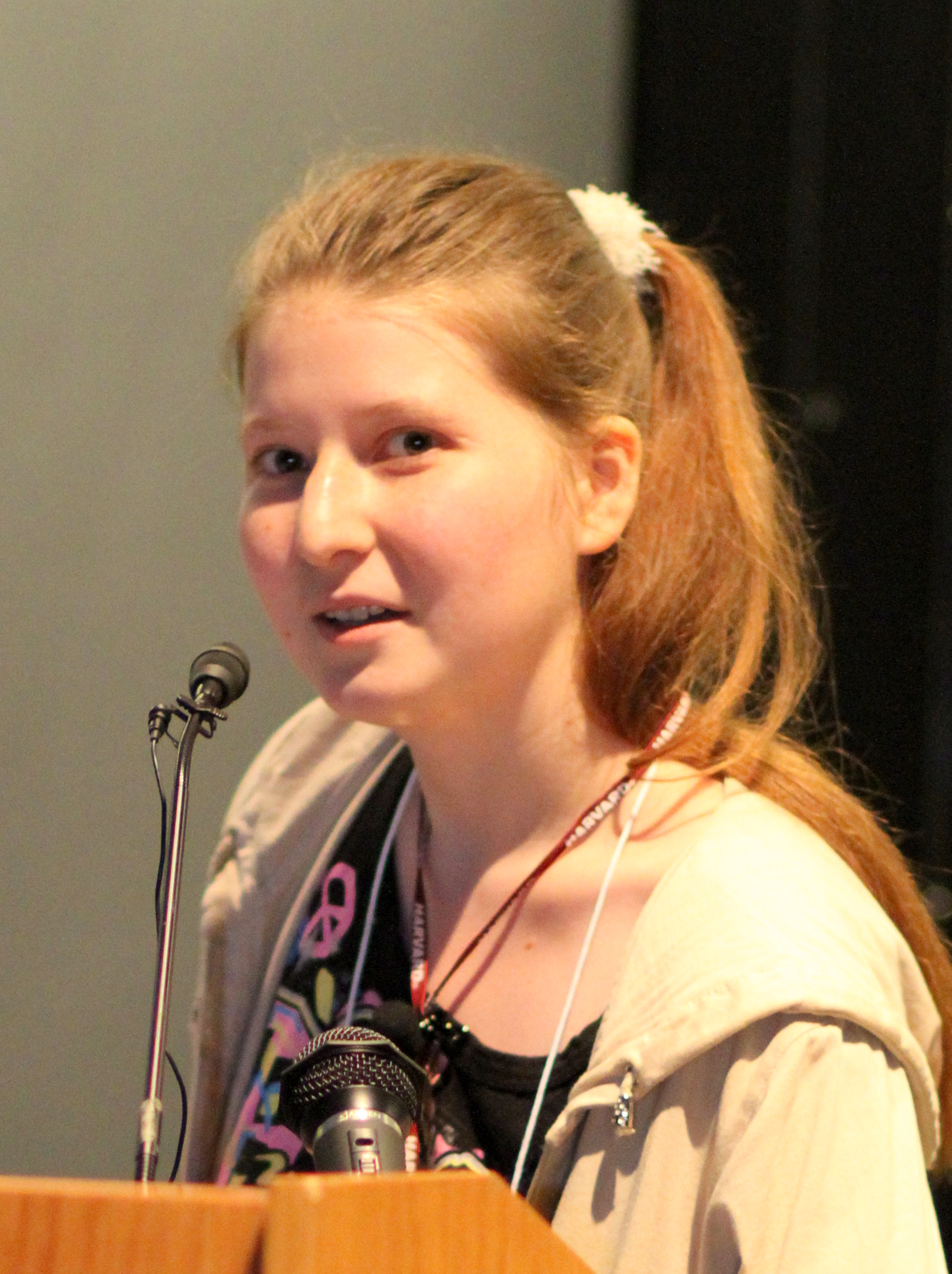 Alexandra Elbakyan on conference in Harvard